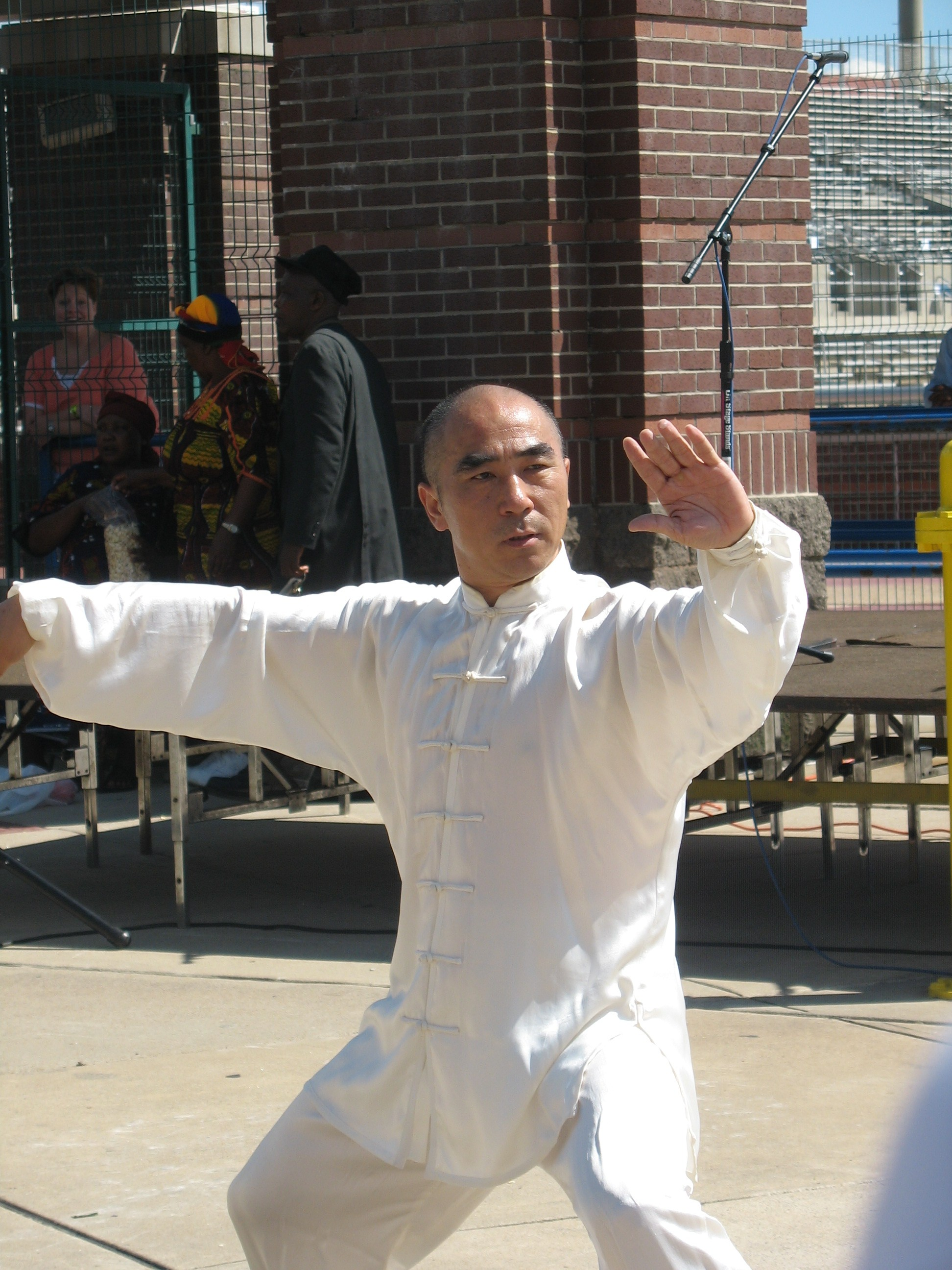 A Chen style tai chi demonstration